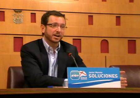 Javier Maroto, Partido Popular Vitoria